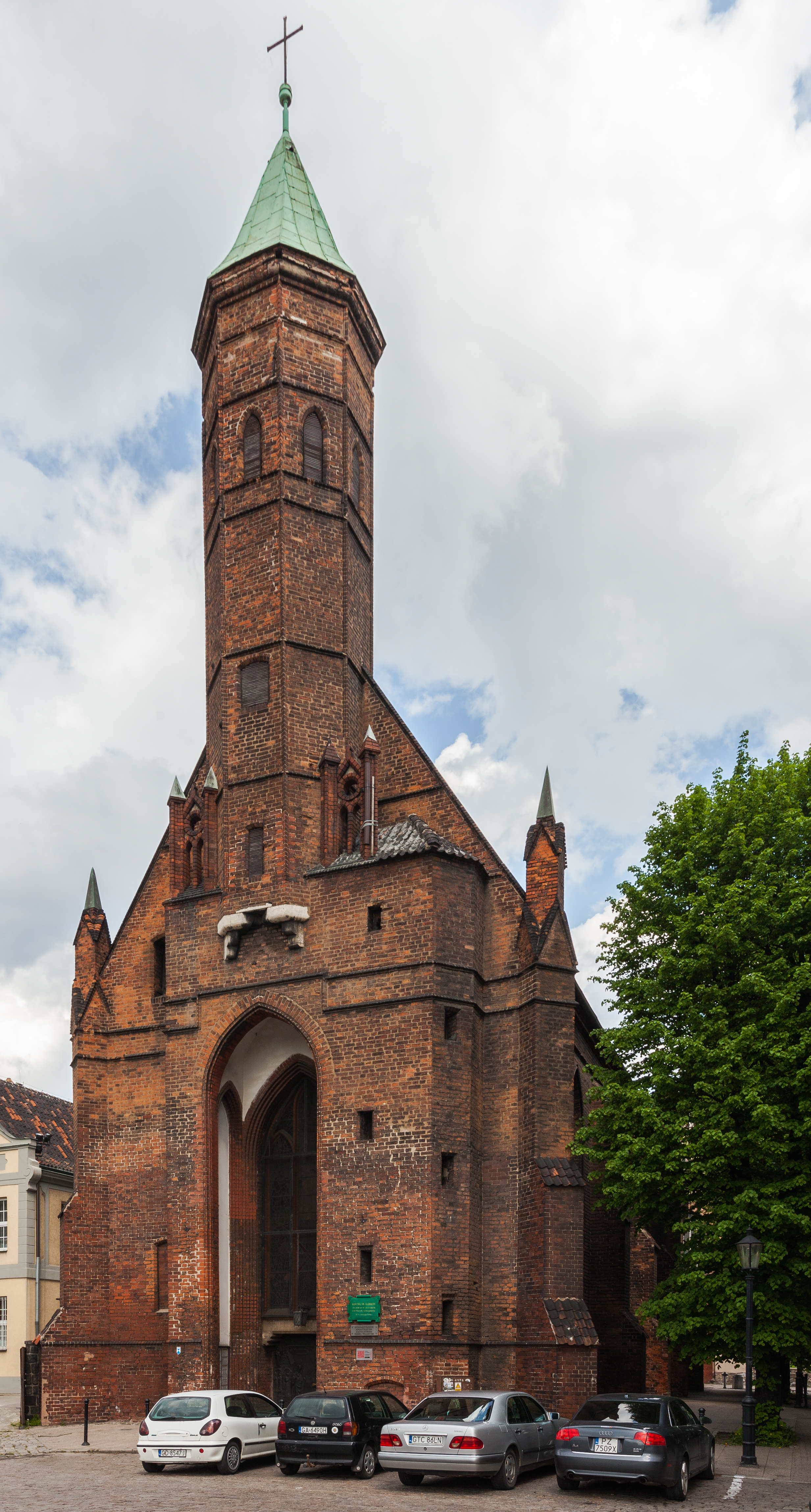 St Elisabeth of Hungary church, Gdańsk, Poland